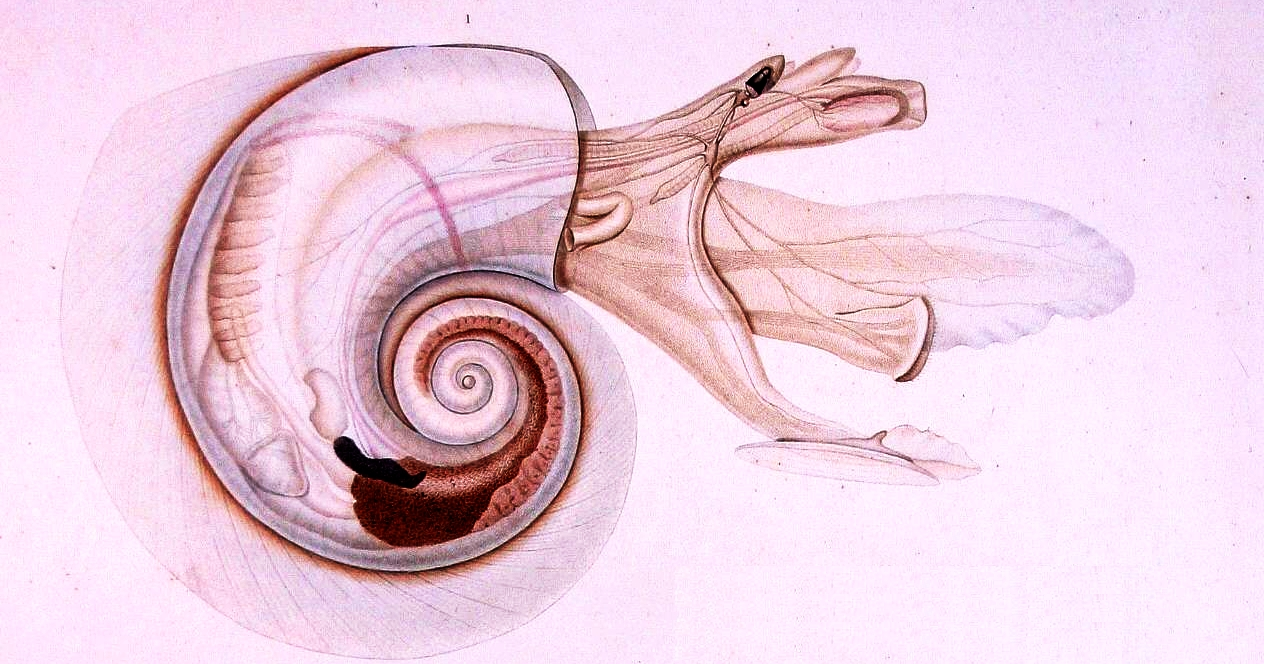 Zoology (molluscs)